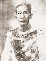 His Royal Highness Prince Voravannakara the prince of Naradhip Prapanpongse